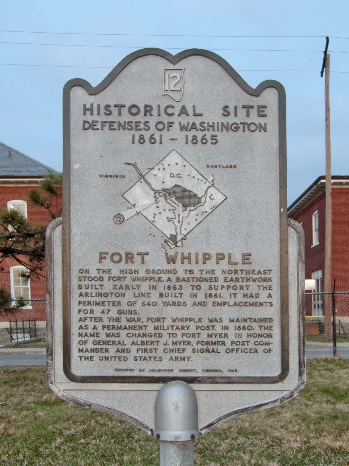 Inscription: Historical Site Defenses of Washington 1861-1865 Fort Whipple On the high ground to the northeast stood Fort Whipple, a bastioned earthwork built early in 1863 to support the Arlington Line built in 1861. It had a perimeter of 640 yards and emplacements for 47 guns. After the War, Fort Whipple was maintained as a permanent military post. In 1880, the name was changed to Fort Myer In honor of General Albert J. Myer, former post commander and first Chief Signal Officer of the United States Army. This marker is included in the Defenses of Washington marker series.